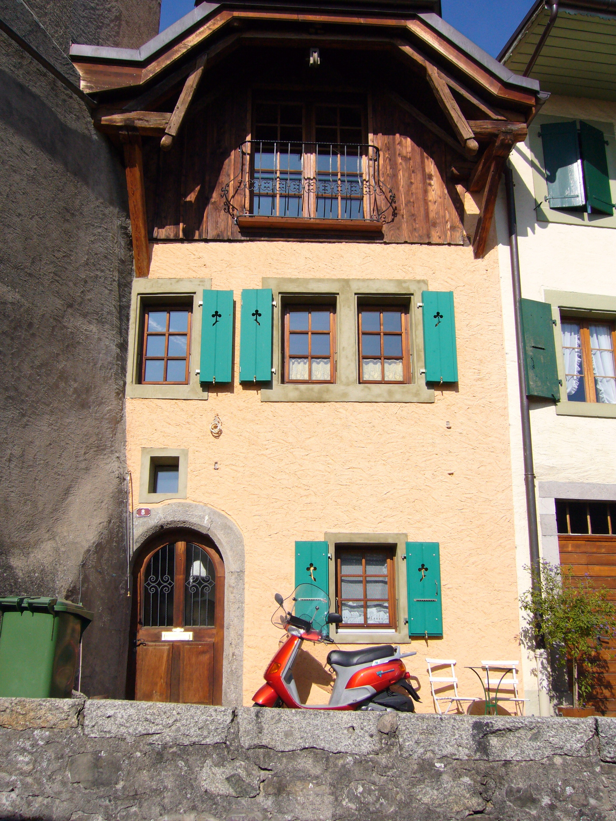 Chexbres, Switzerland